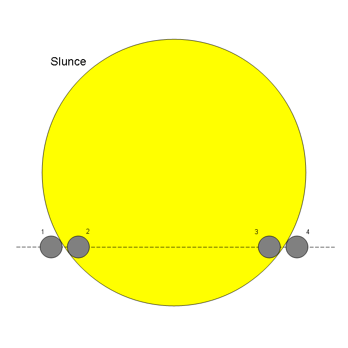 The picture shows contacts of a planet transiting the Sun. For descriptive reasons the diameter of the planet is bigger than it could be seen from the Earth. 1. First contact 2. Second contact 3. Third contact 4. Fourth contact